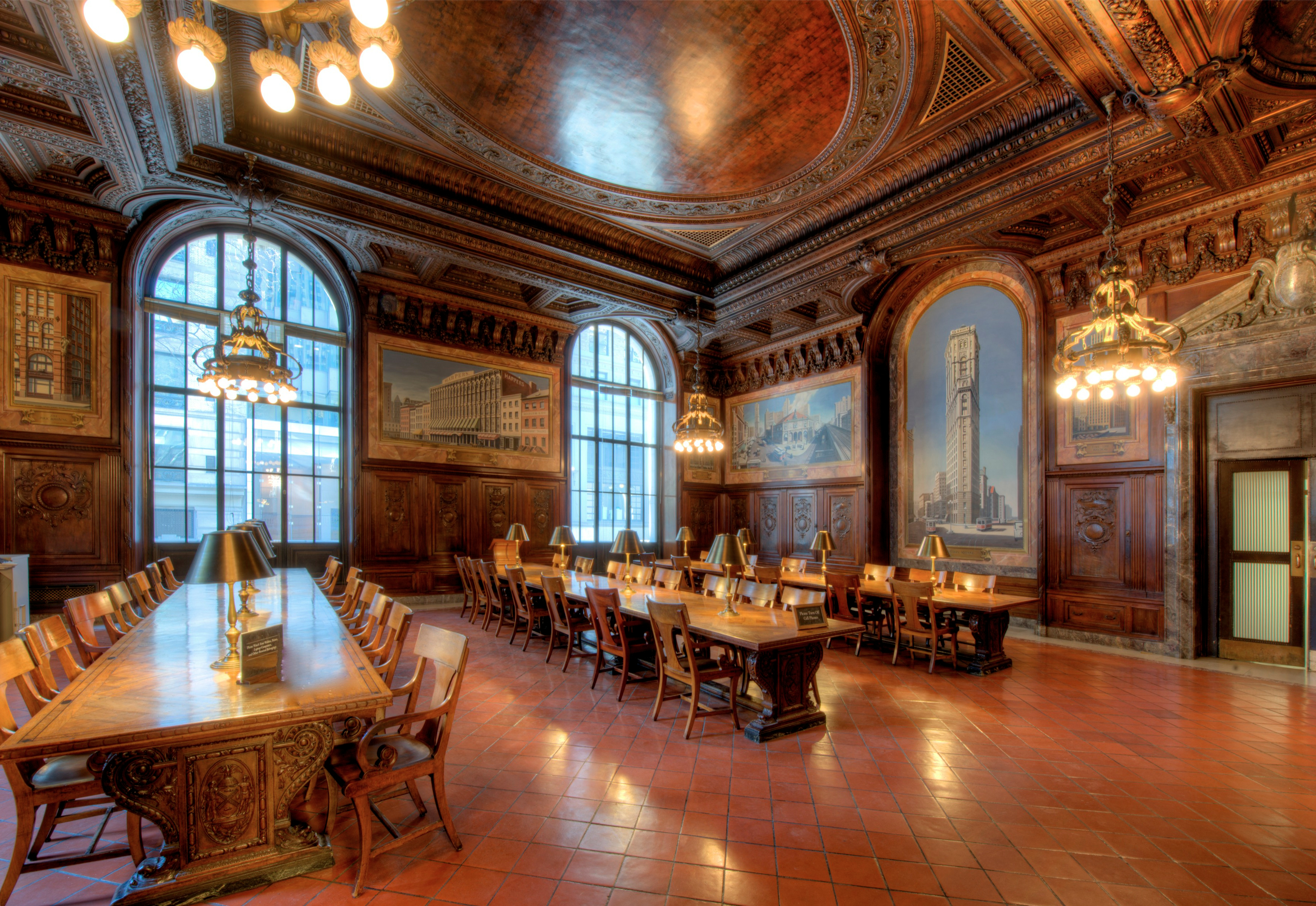 The DeWitt Wallace Periodical Room 108 services current unbound issues of 68 popular periodical titles and 22 domestic and foreign newspapers. The DeWitt Wallace Periodical Room is named for the founder of Reader's Digest Magazine. In the 1920's DeWitt Wallace (1889-1981) spent countless hours in the Periodical Room, reading and condensing articles from the Library's collection. In 1983, the room's restoration was made possible by a generous gift from the Wallace Fund, established by DeWitt Wallace.